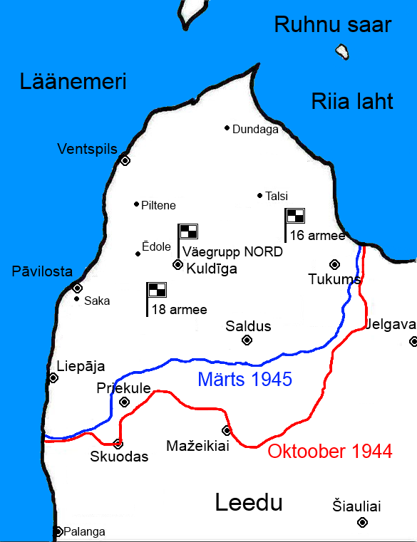 Courland front during November 1944 to March 1945